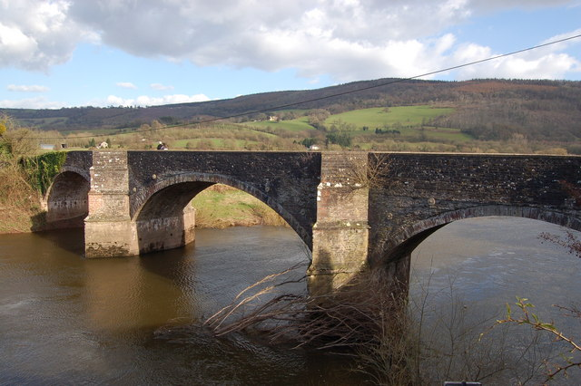 The bridge at Newbridge-on-Usk The now not so new bridge at Newbridge-on-Usk. The picture is taken from the garden of the "Newbridge" inn looking south-east and down stream. In the background is Wentwood on the far side of the A449.